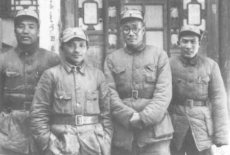 1938 Deng Xiaoping in NRA uniform. 1938年1月，鄧小平任八路軍129師政治委員。這是129師領導人在山西遼縣（今左權縣）桐峪鎮合影。左起：李達、鄧小平、劉伯承、蔡樹藩